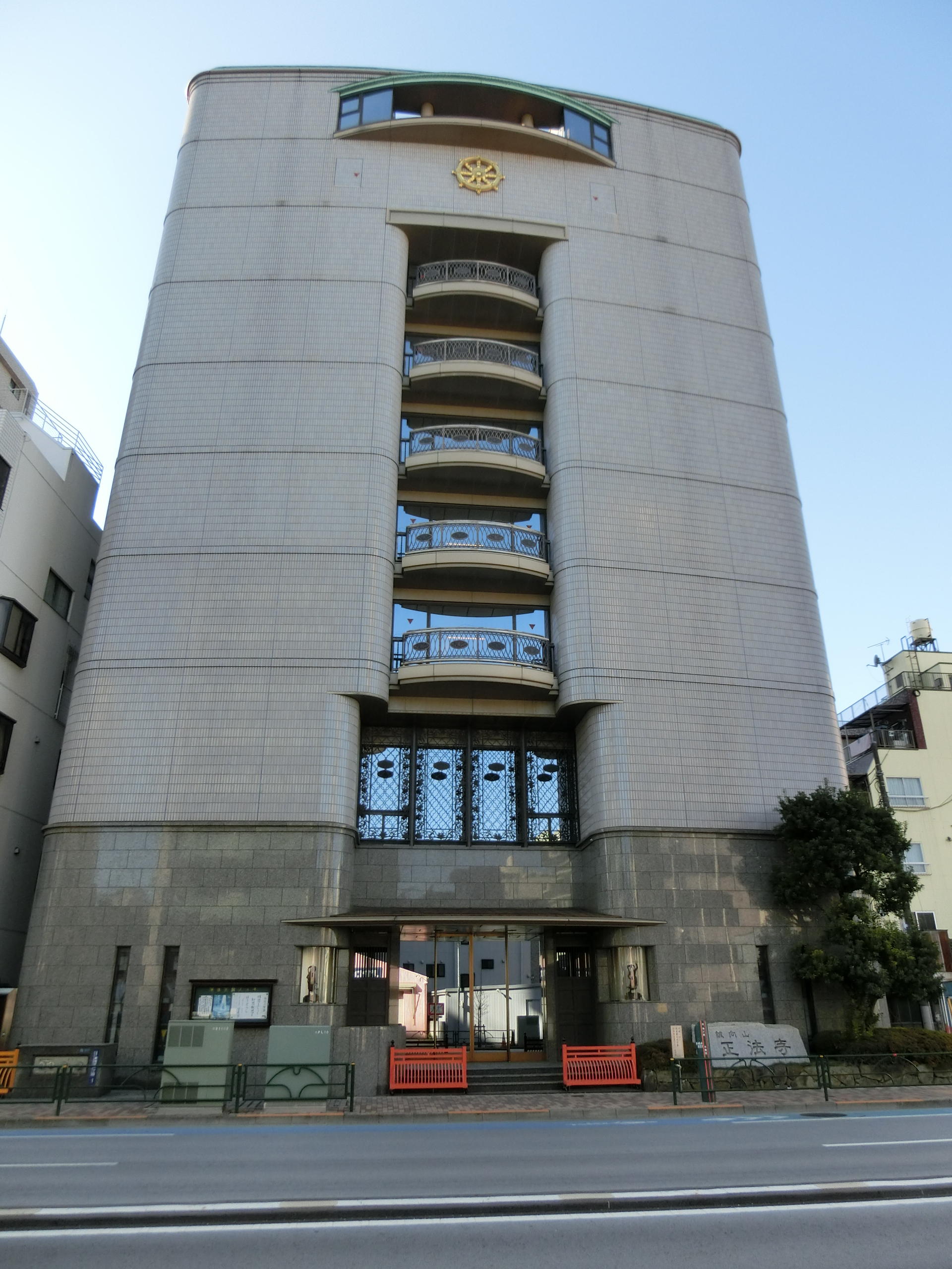 Shoho-ji (Taito)